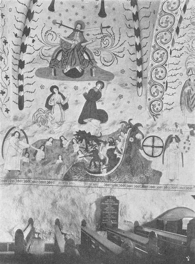 Lojo middle age church, interior view – wall paintings (Lohja middle age church, interior view – wall paintings.).